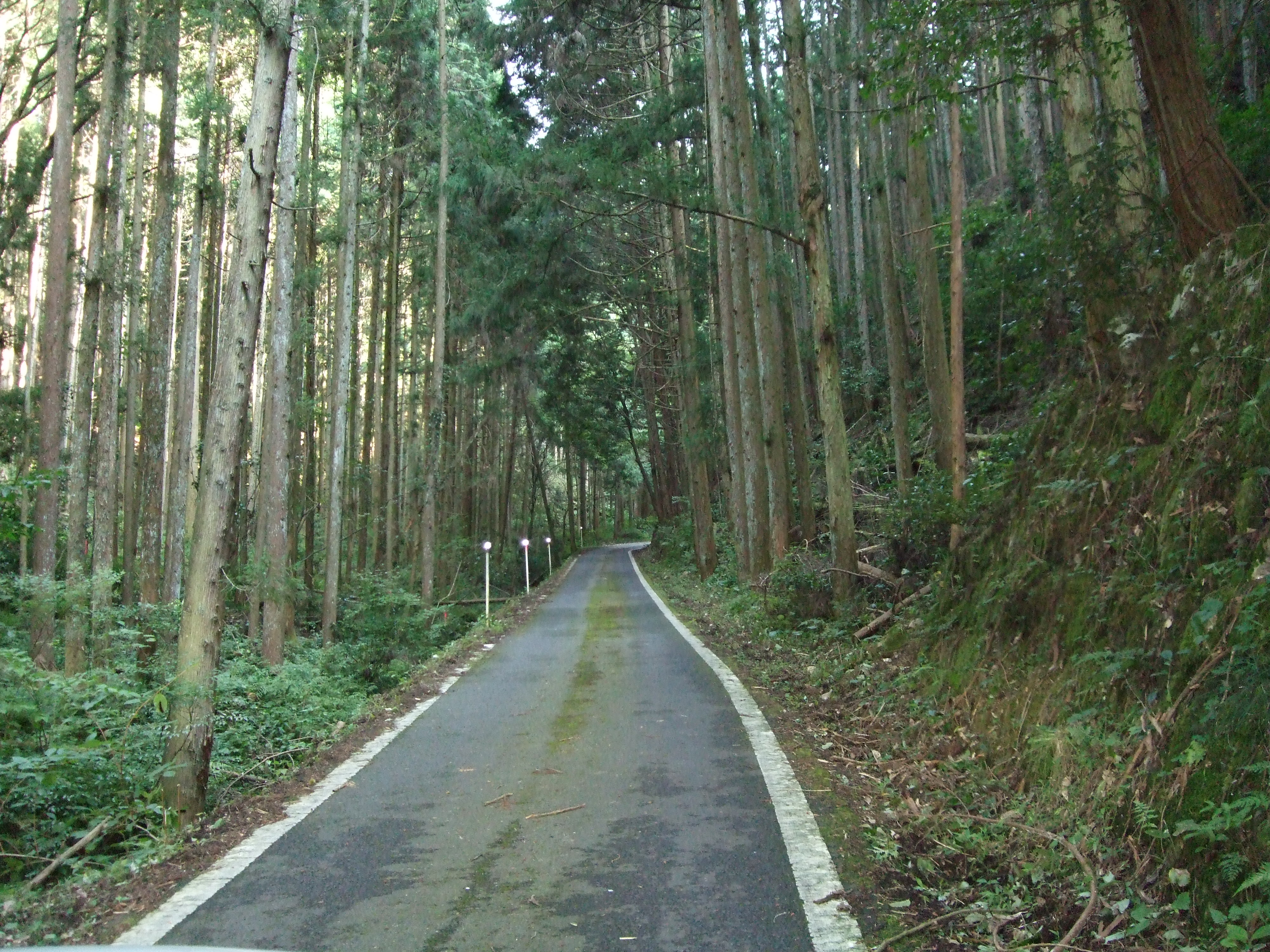 Gifu prefecture road No.80 in Shimonoho,Seki city,Gifu,Japan